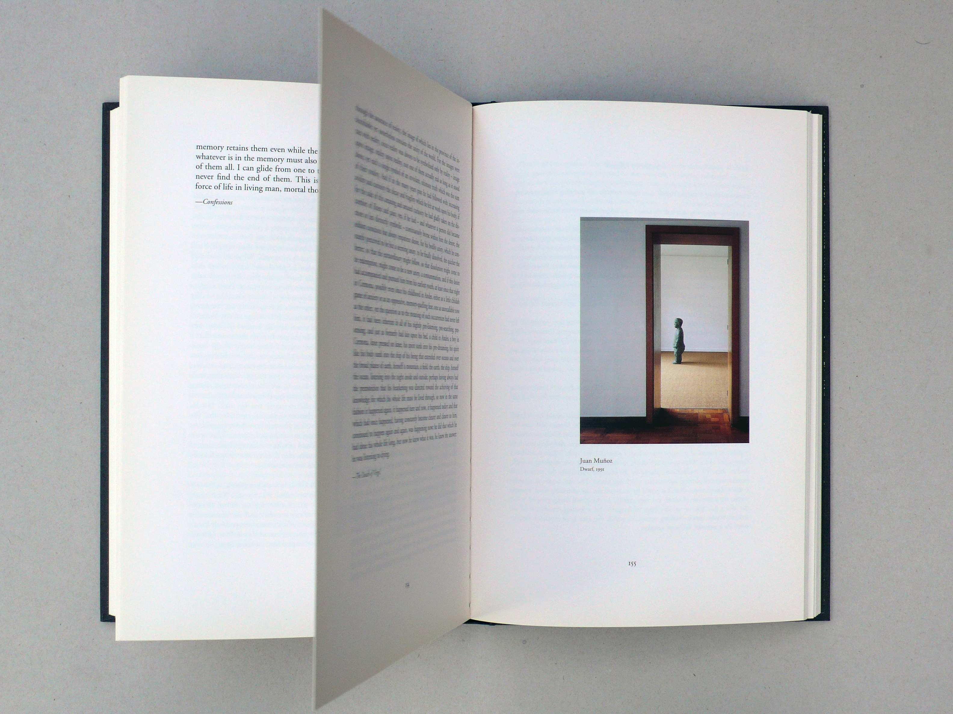 Spread from the book "Het Sublieme Gemis" (1993) designed by Filiep Tacq